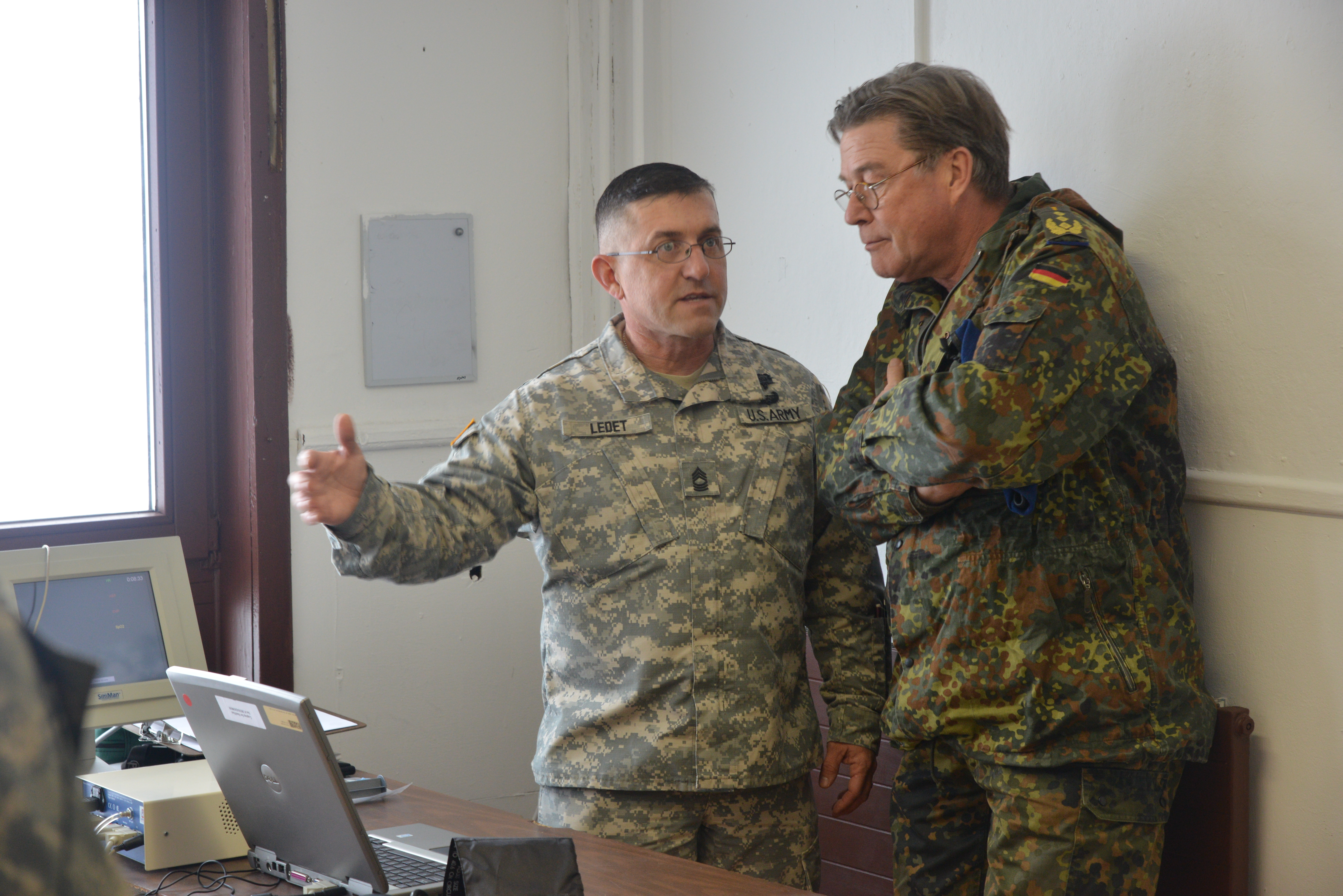 Generaloberstabsarzt Dr. med. Ingo Patschke (the German army surgeon general) visiting the "Viper Pit" medical training facility at Baumholder, Germany, Dec. 9, 2014. The "Viper Pit," run by 421st Medical Battalion (Multifunctional), facilitates multiple medical training courses with a primary focus of preparing Soldiers to preserve life of traumatic injuries sustained during Unified Land Operations. The Viper Pit is open to both U.S. and partner countries. Training equipment was provided by Training Support Activity Europe/ Training Support Center Kaiserslautern /Baumholder